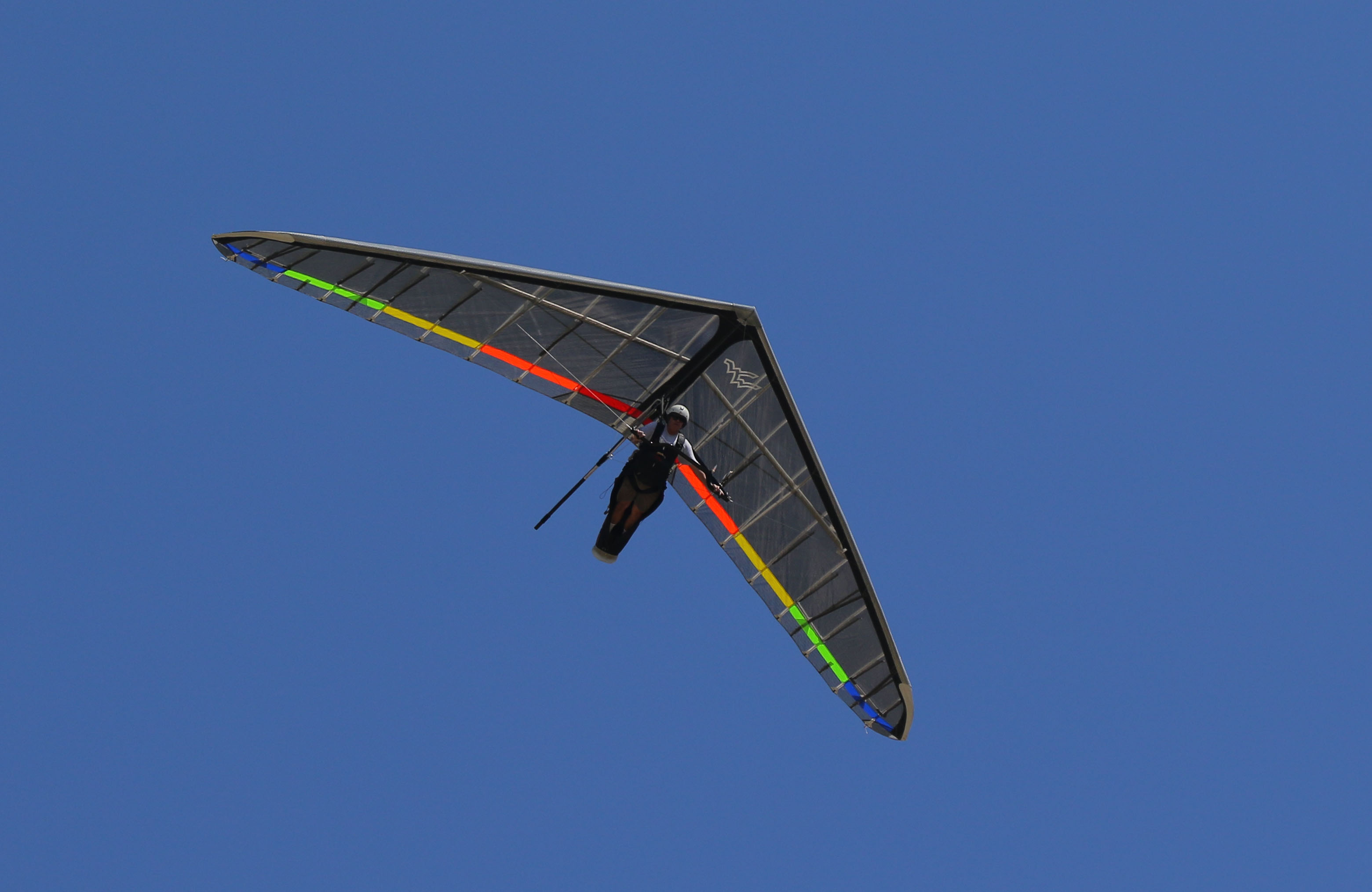 Wills Wing test pilot Ken Howells flies a Wills Wing U2C 160